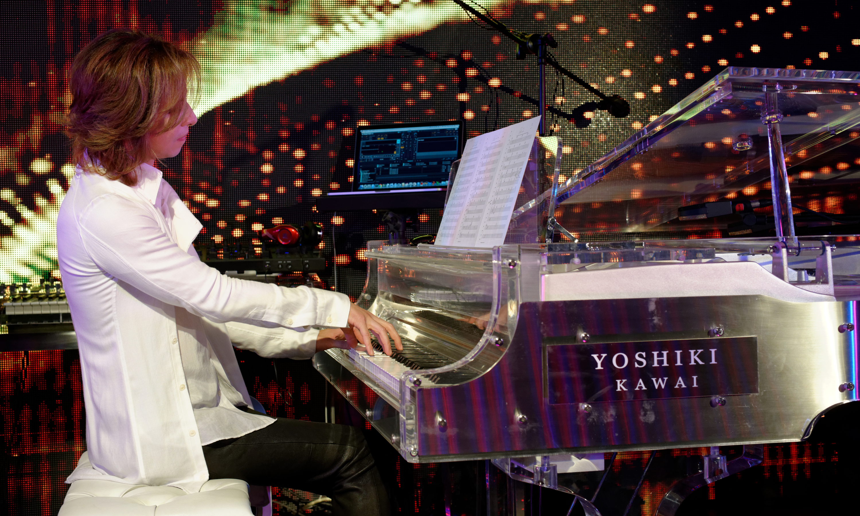 Yoshiki (of the band X Japan) performing live and speaking on the Target Terrace on the rooftop of the Grammy Museum in downtown Los Angeles California on Wednesday February 19th, 2014. Yoshiki announced some of the dates of his upcoming world tour to promote his new solo "Yoshiki Classical" album. Stan Lee introduced Yoshiki (the two had collaborated on a comic book series in the past). This was a private event, but between 100-150 fans were awarded tickets via social media promotions and an email contest. Shot using a Nikon D610 with NIKKOR 85mm f/1.8G and 50mm f/1.4D lenses.